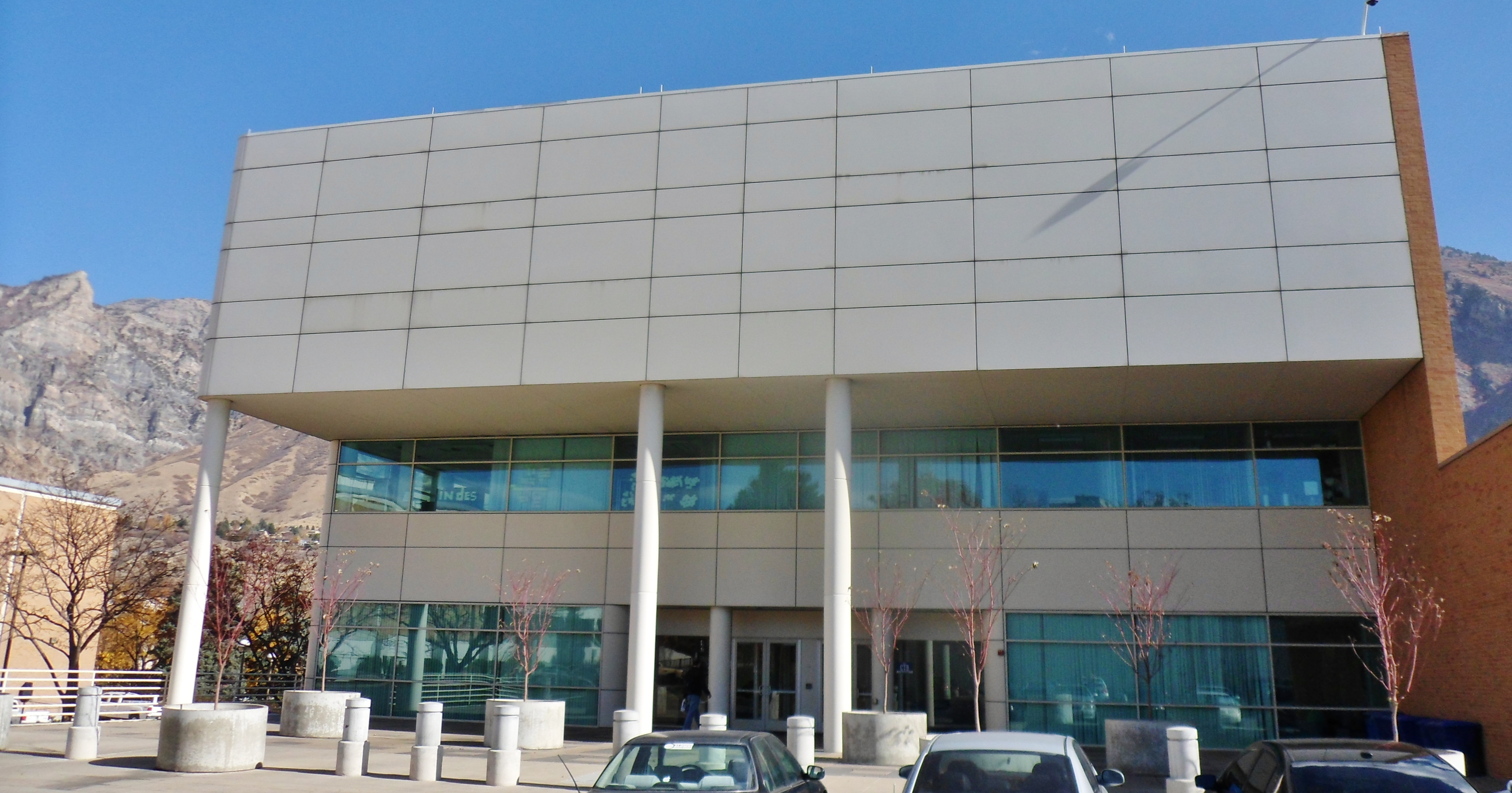 Crabtree Building with Squaw Peak in background.